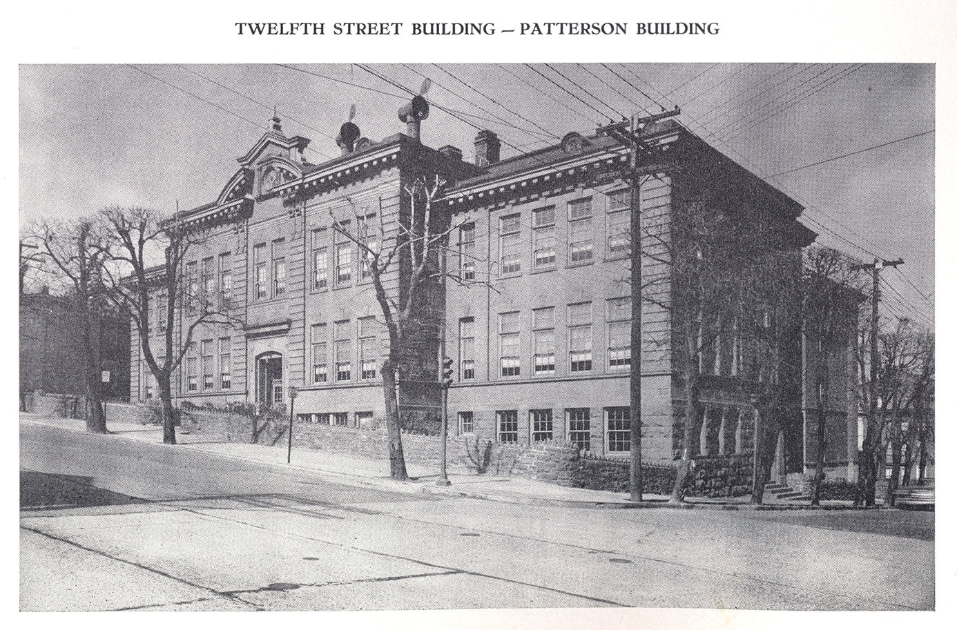 The former Pottsville High School located at 12th and Martket Streets prior to the construction of the current school at 16th and Elk Ave, Pottsville, Pennsylvania